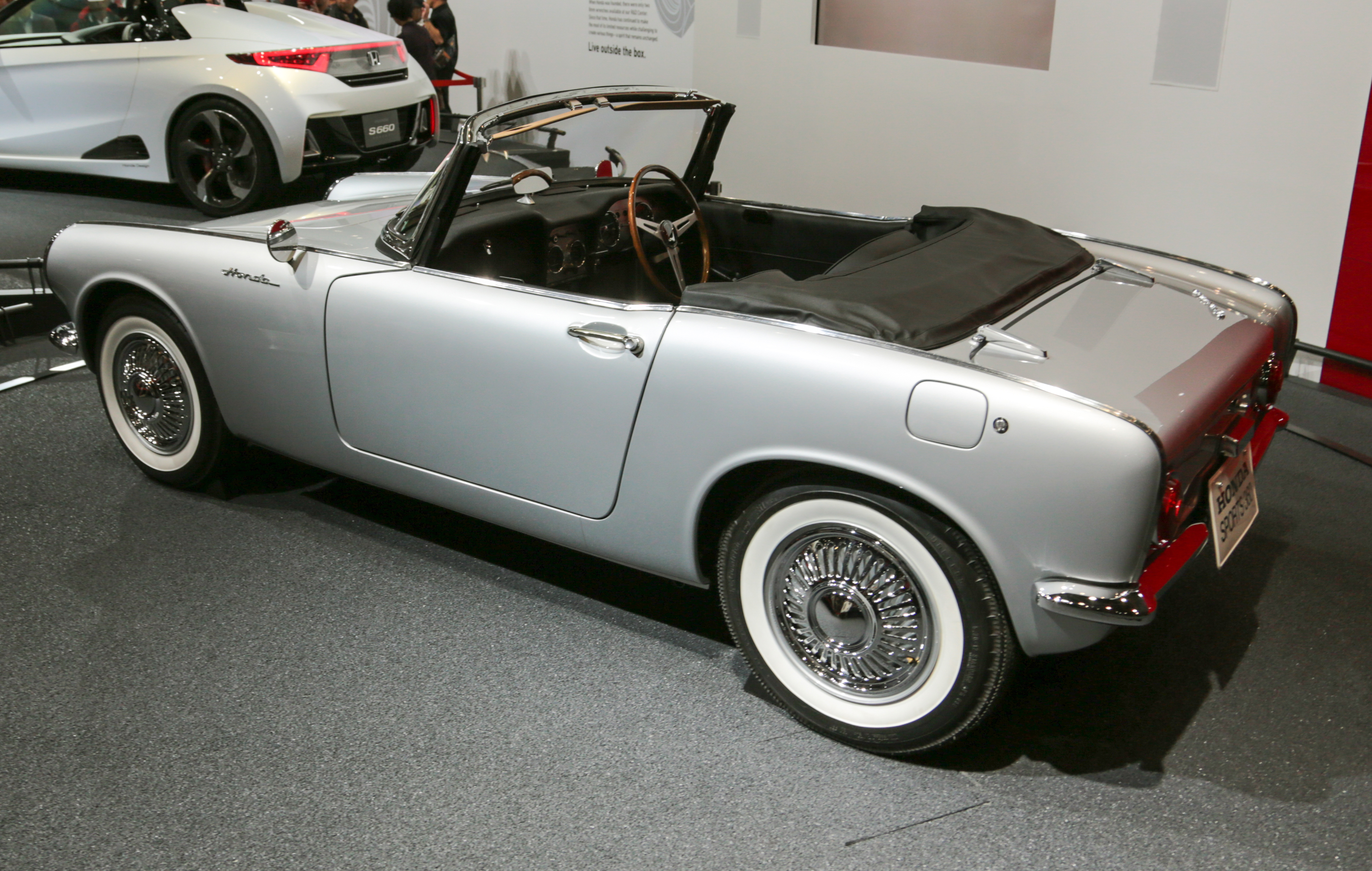 Honda Sports 360 prototype displayed at the 43rd Tokyo Motor Show, 2013. It was there to promote the Honda S660 concept car.